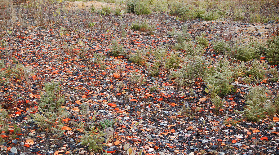 The Gunnilbo Shooting Range 3 (Skinnskatteberg district, Sweden)